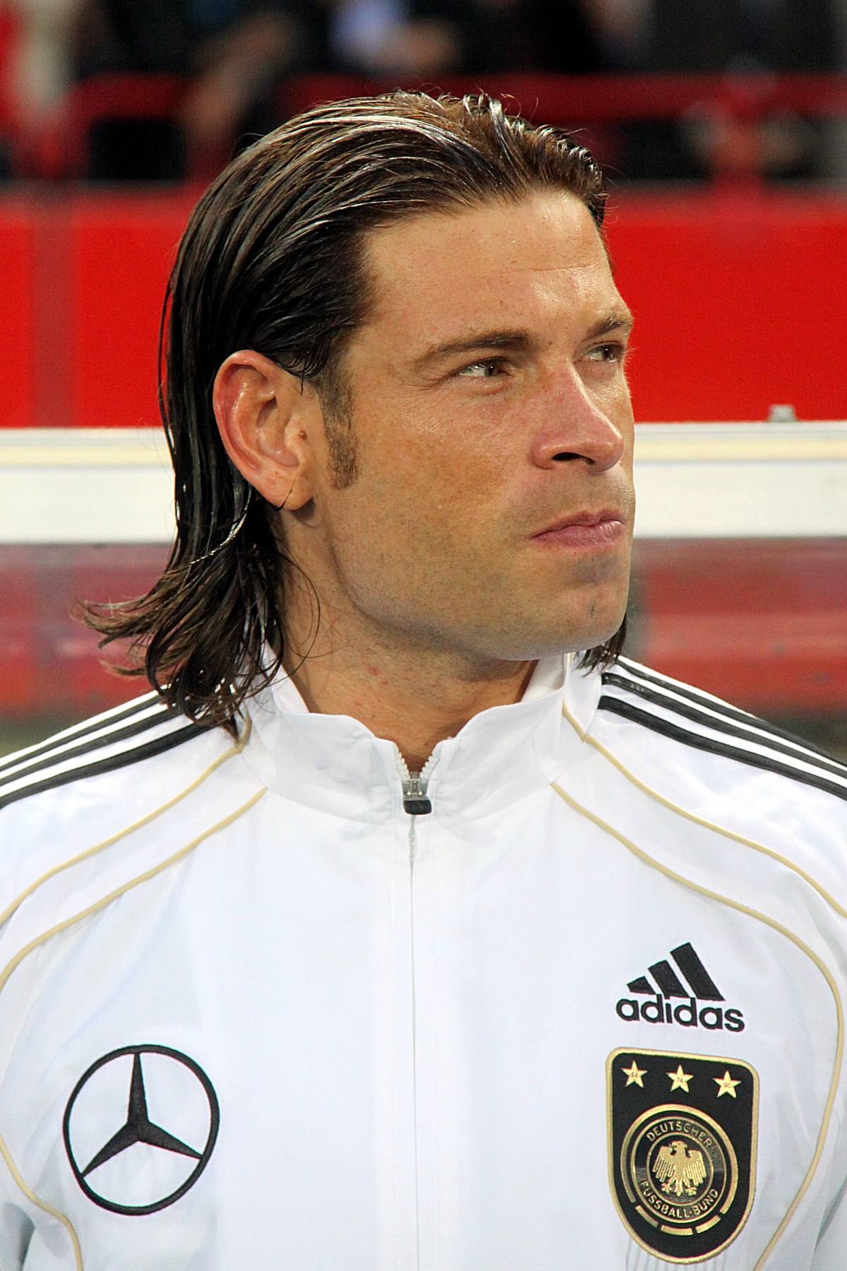 Tim Wiese (Werder Bremen), german national football team